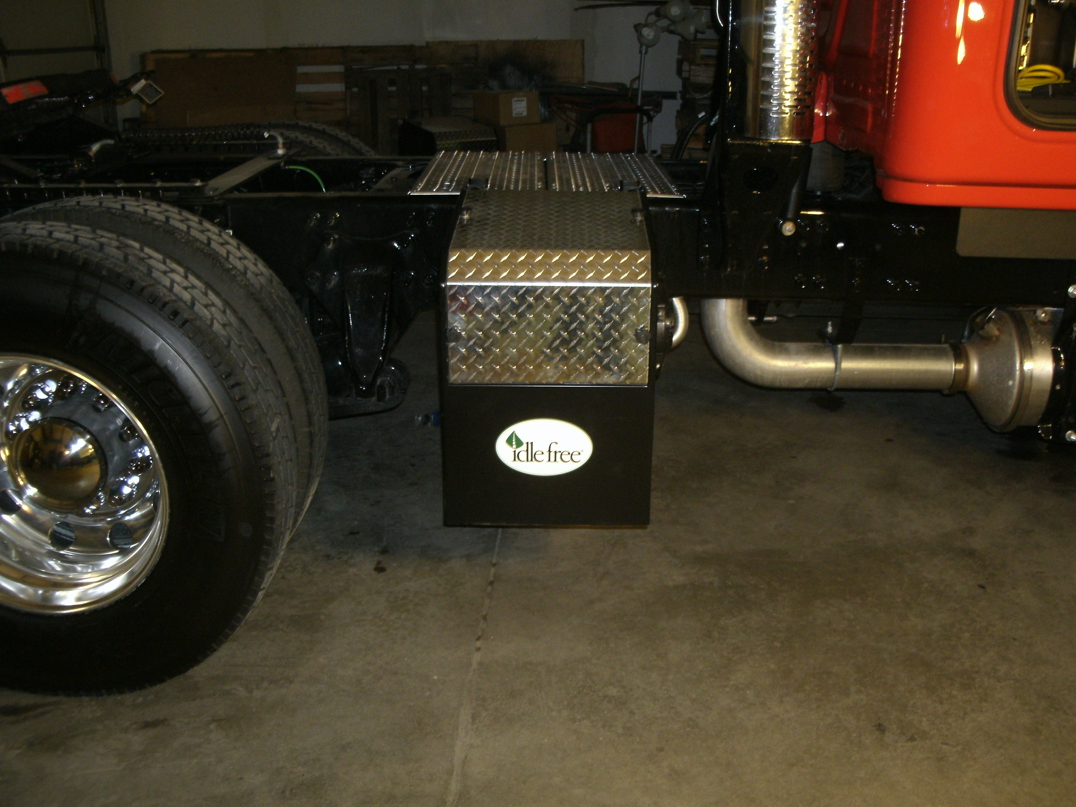 the Idle Free Systems APU installed on a truck